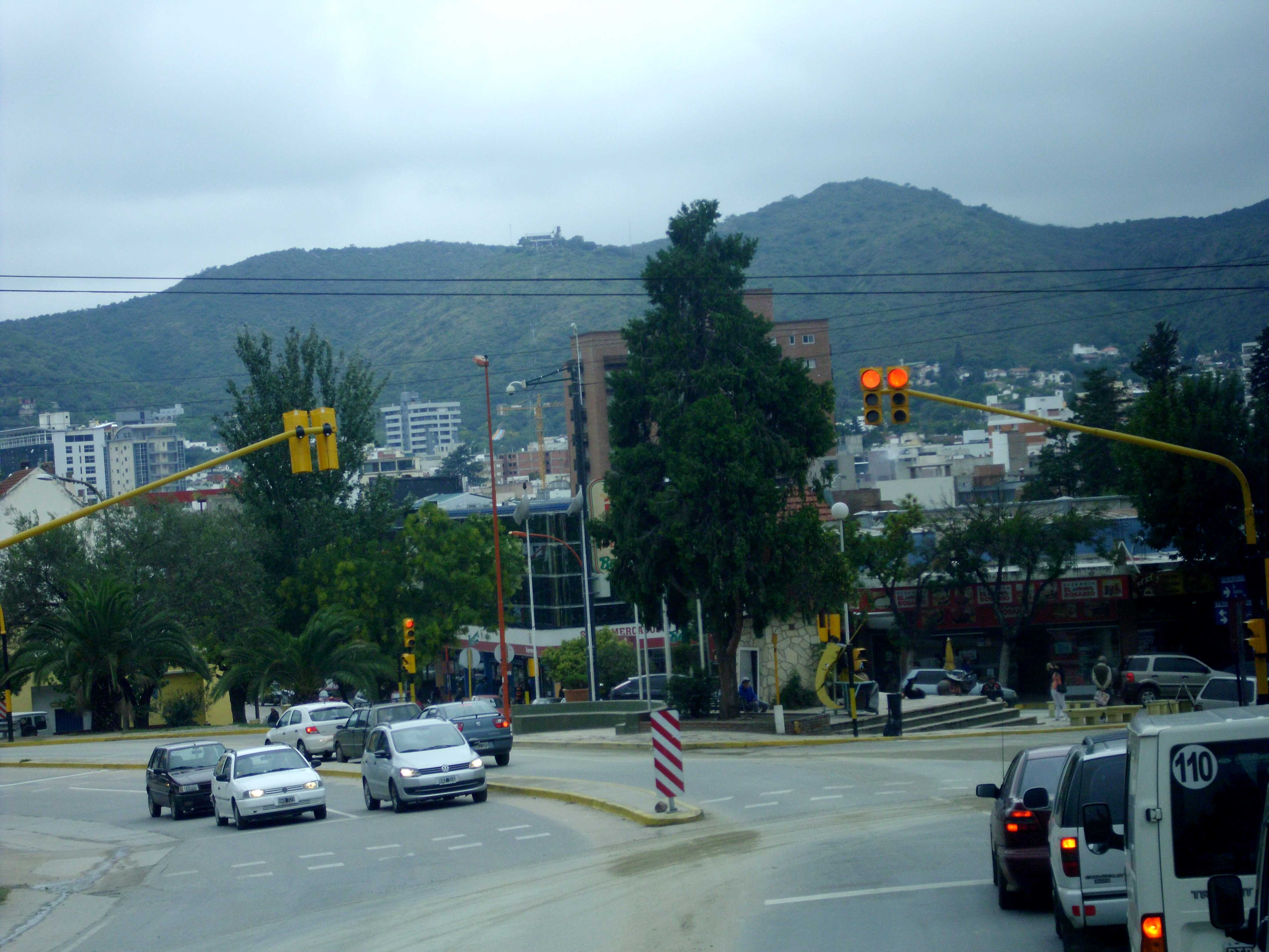 Avenues near downtown, touristic city of Villa Carlos Paz, Argentina.